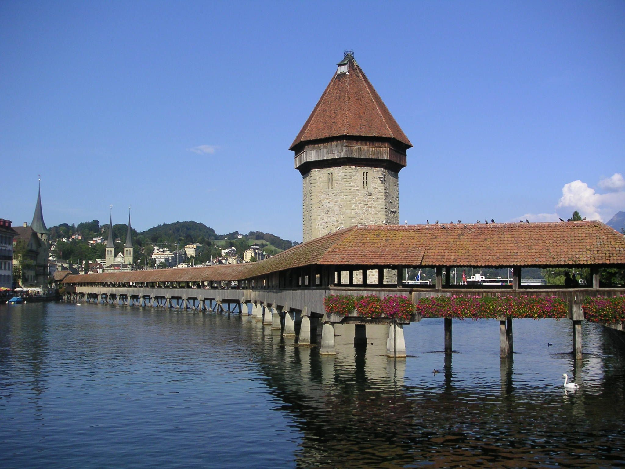 Kapellbrücke in Lucerne, Switzerland.